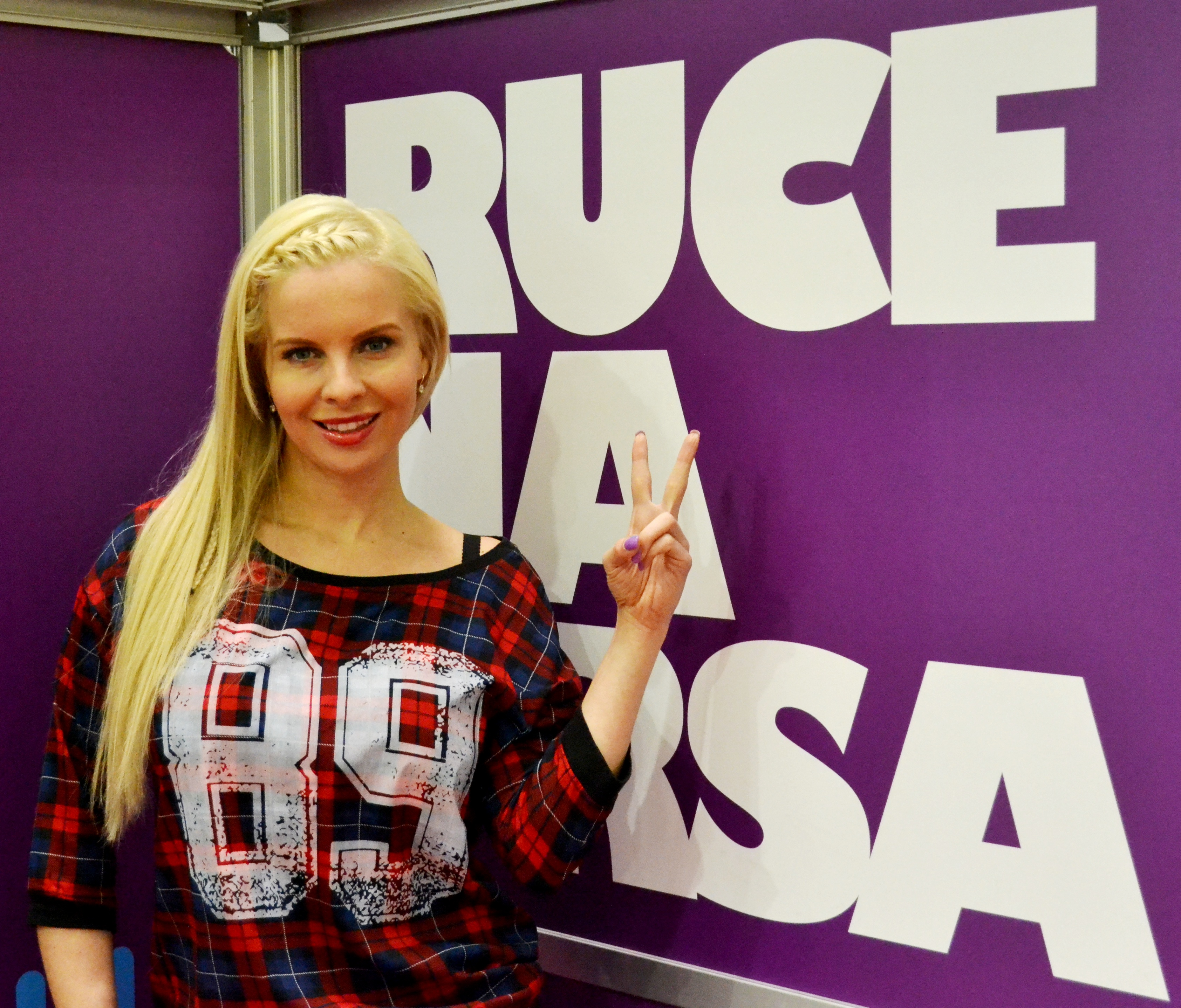 Kateřina Kristelová, Czech presenter and actress